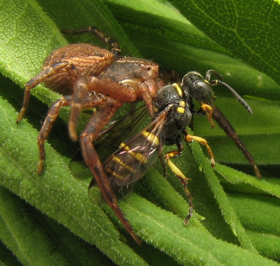 Sand wasp, Hoplisoides, prey of ground crab spider, Xysticus sp. Horsham trail, Montgomery County, Pennsylvania, USA.